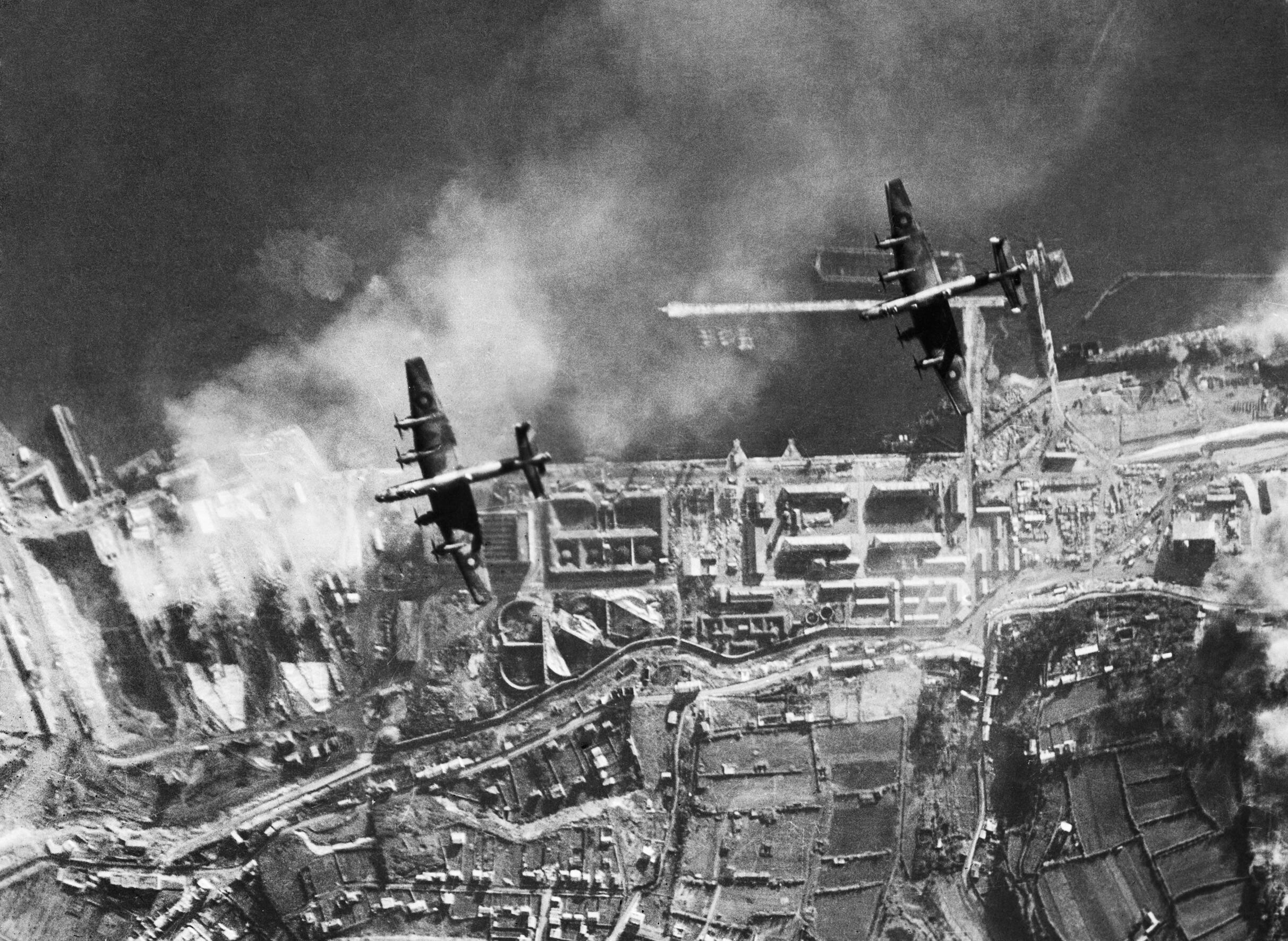 IWM caption : Handley Page Halifaxes of No. 35 Squadron RAF bombing the German battlecruisers SCHARNHORST and GNEISENAU in dry-dock at Brest, France.